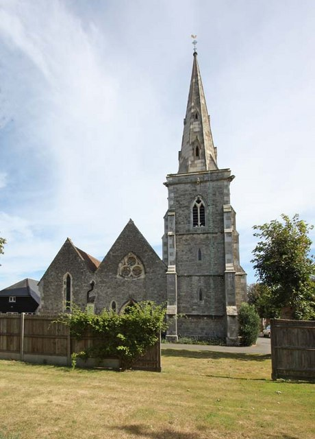 St Andrew, Deal, Kent